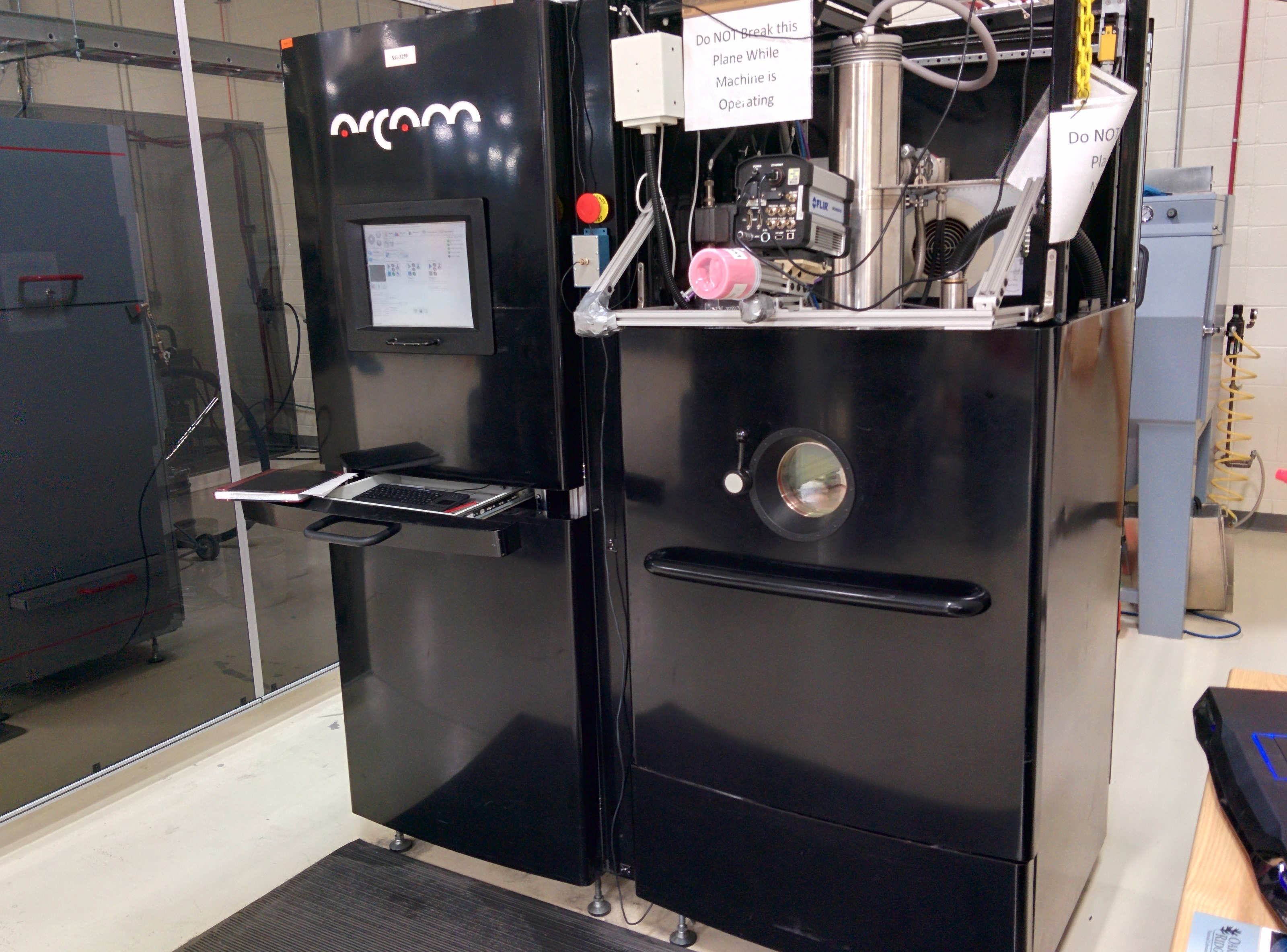 Common EBM machine used in additive manufacturing with cover removed.